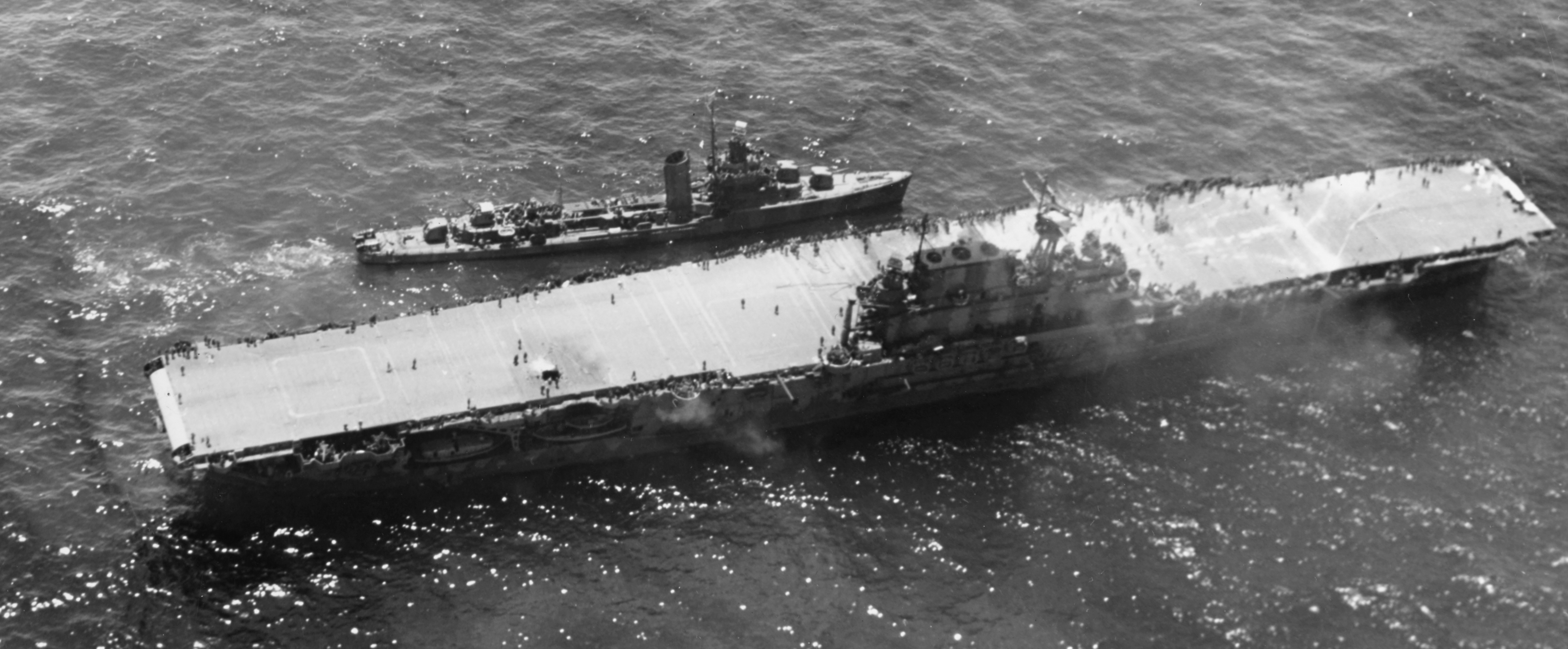 The damaged U.S. Navy aircraft carrier USS Hornet (CV-8) during the Battle of Santa Cruz Islands with the destroyer USS Russell (DD-414) alongside ready to take off her crew.